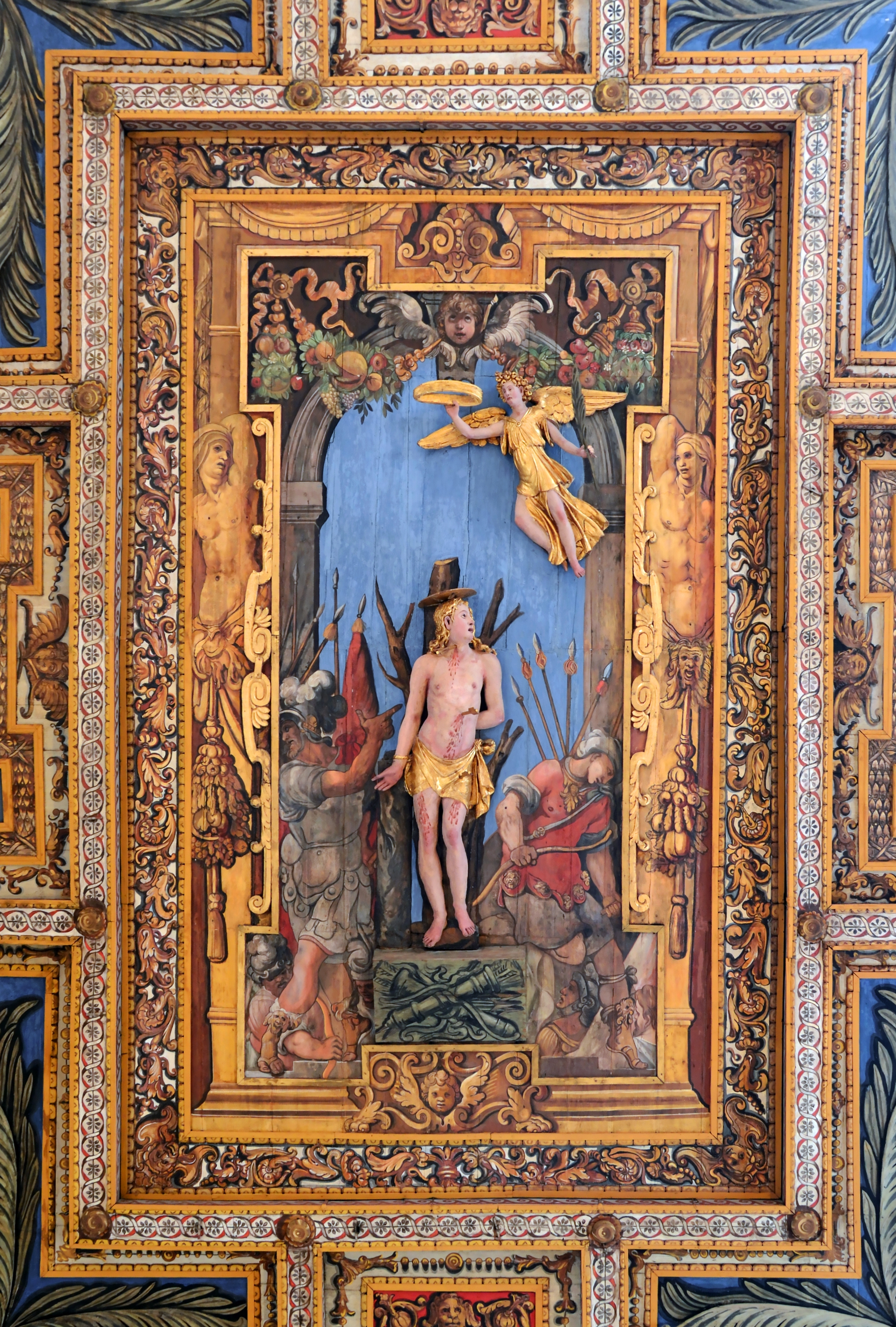 Roof of San Sebastiano fuori le mura (Rome)